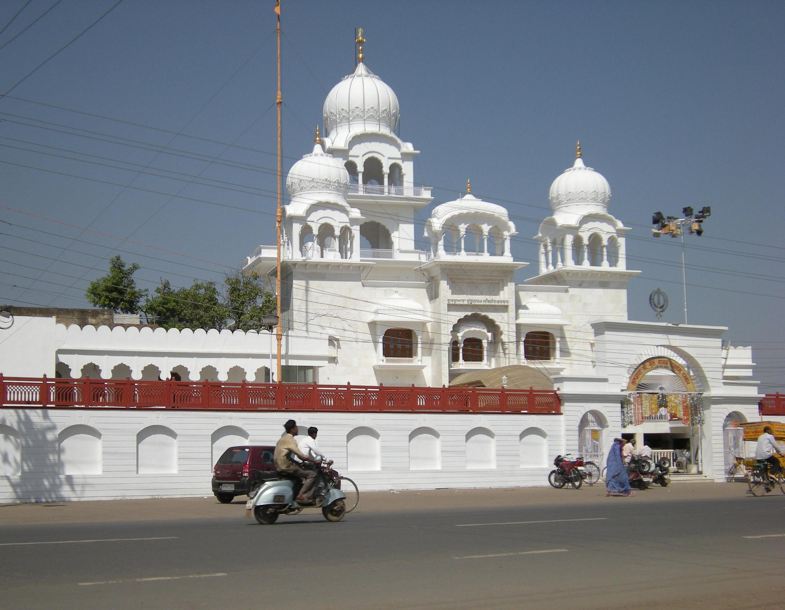 Gurdwara LIG Circle, AB Road-Indore